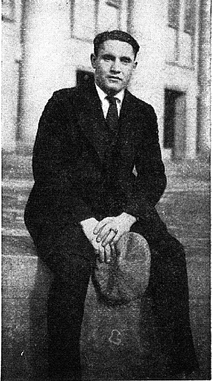 Photograph of John Perrin